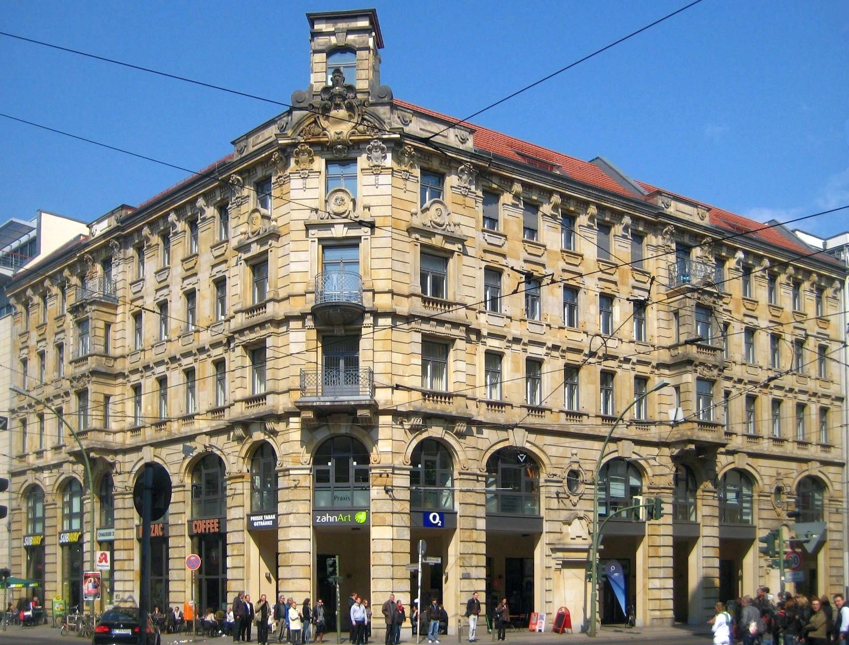 Commercial building at Chausseestraße No. 22, corner of Invalidenstraße No. 35 (right), in Berlin-Mitte. It was built in 1891. The building has been designated as a historic landmark.